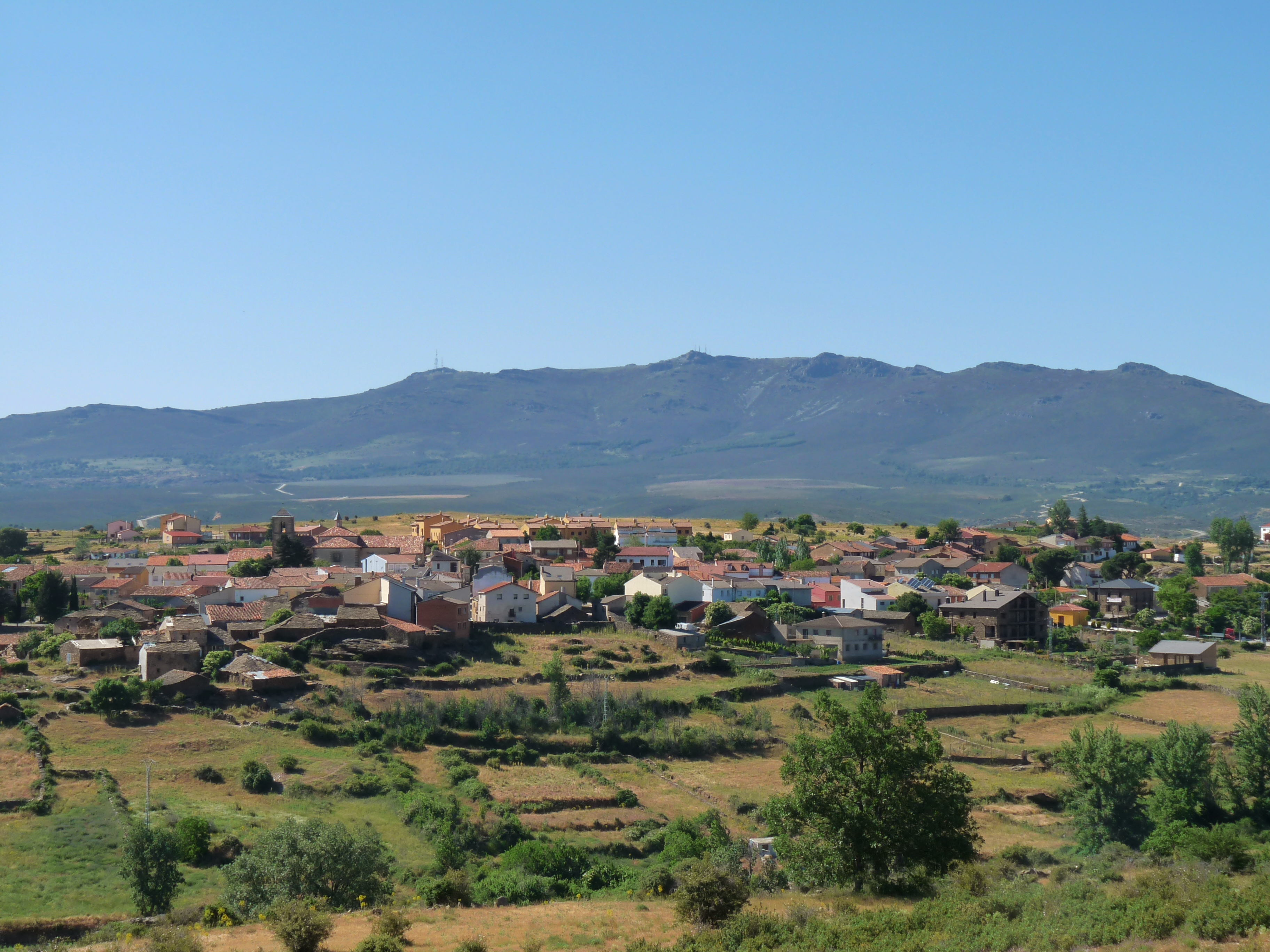 View of the village of Hiendelaencina, Guadalajara, Castile-La Mancha, Spain.